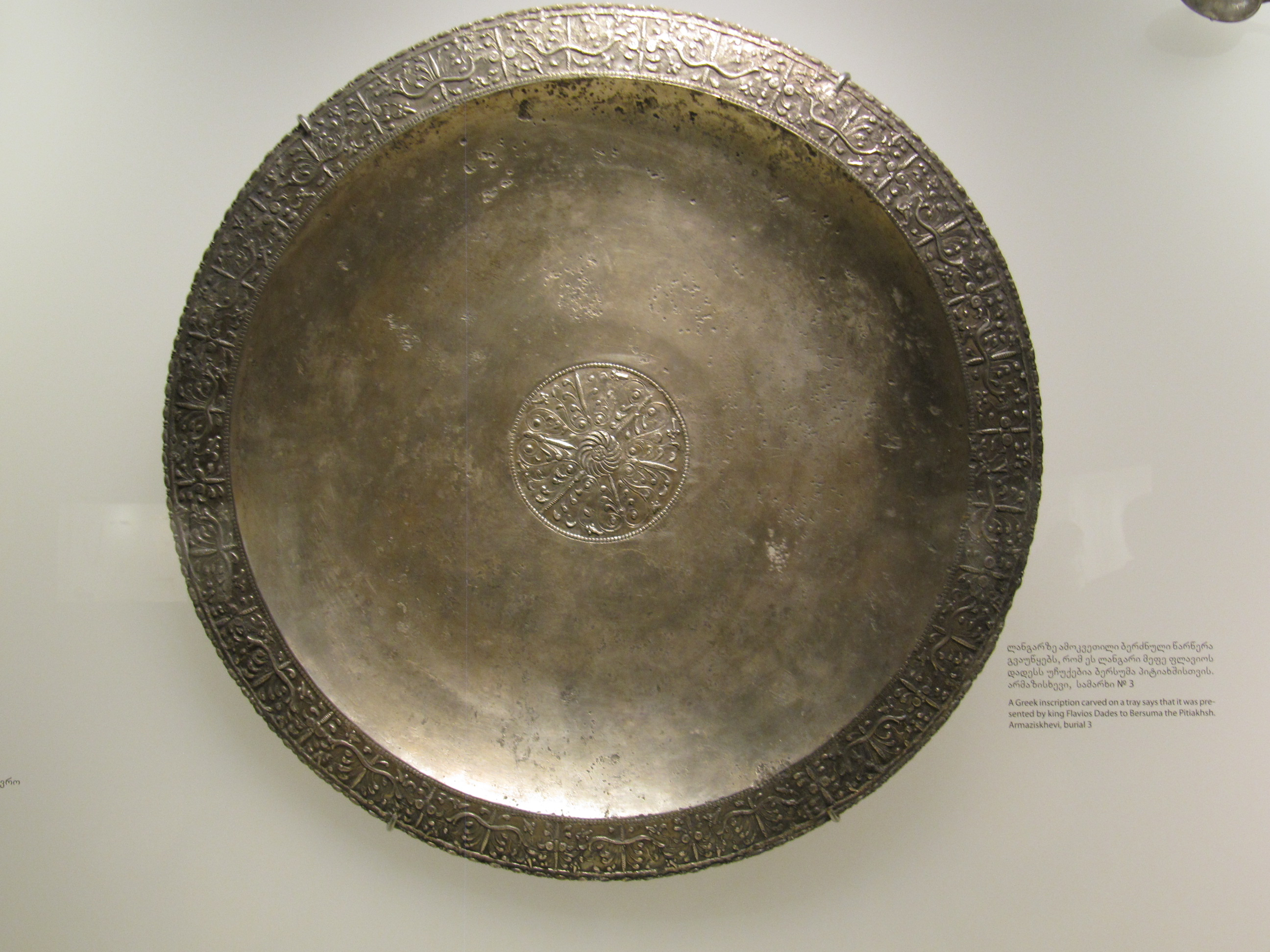 State Museum of History of Georgia (Tbilisi Archaeological Museum)